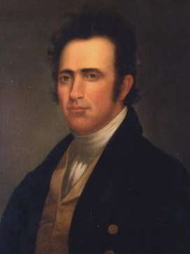 Portrait of Othniel Looker, Governor of Ohio, hangs in room 101 of Ohio Statehouse. Oil on Canvas, 30 X 25 inches.